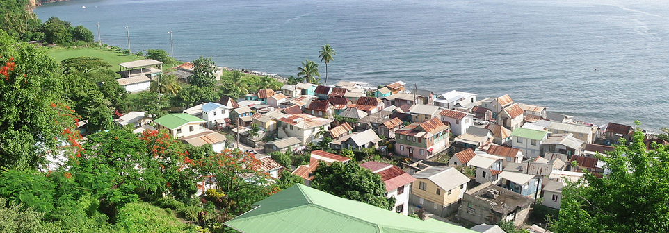 Dublanc Village, Dominica West Indies